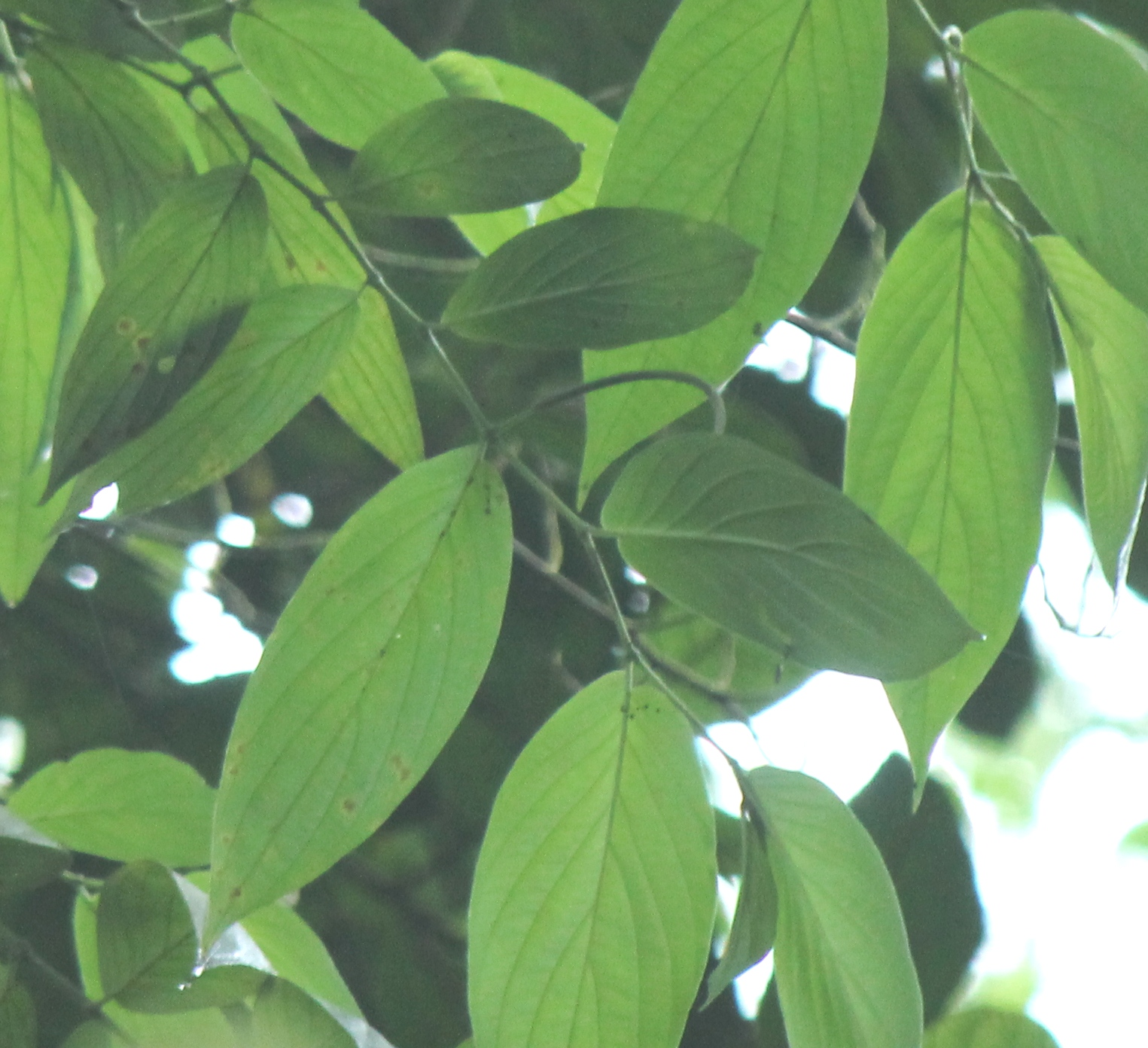 Piper aduncum at Mount Masarang, North SulawesiBahasa Indonesia: Piper aduncum di Gunung Masarang, Sulawesi Utara